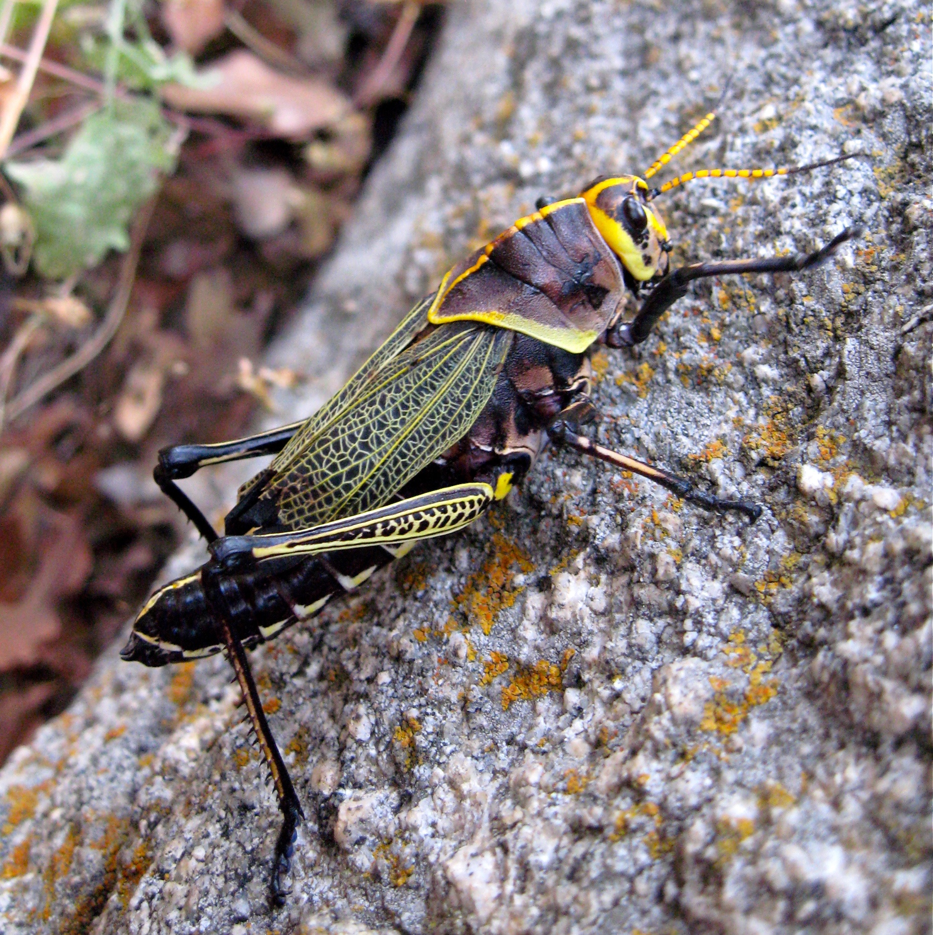 An adult female Taeniopoda eques photographed in the eastern foothills of Arizona's Rincon Mountains.